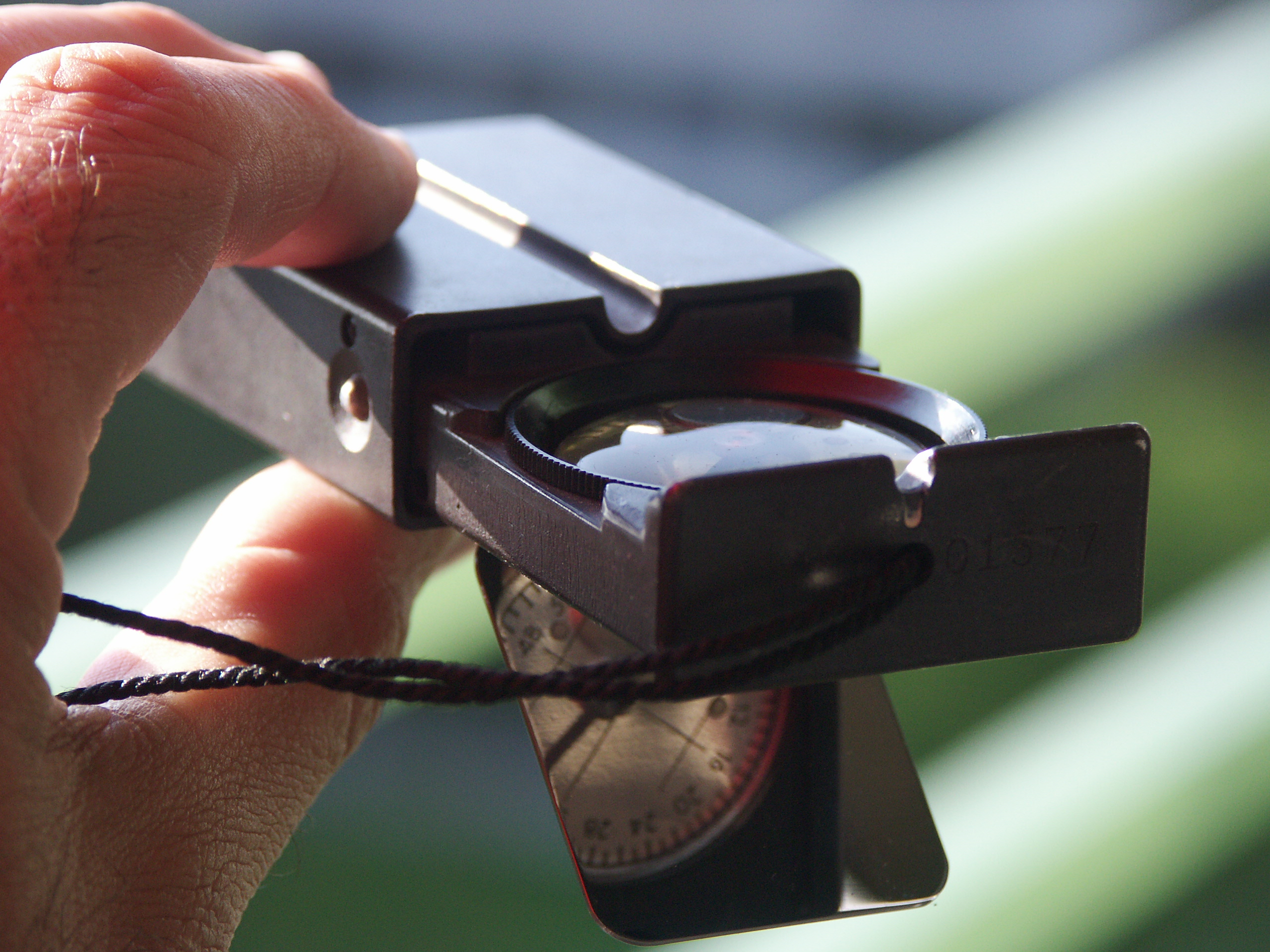 RECTA Compass.